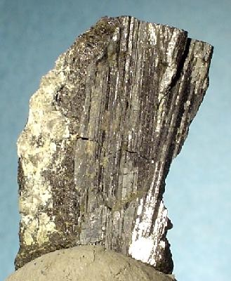 Bismuthinite Locality: Marcamarcani Mine (San Baldomero Mine), Sorata, Larecaja Province, La Paz Department, Bolivia (Locality at ) Size: 2.9 x 1.9 x 1.5 cm. Metallic gray bismuthinite crystals in lamellar growth of parallel bundles with a bit of matrix. From an old bolivian locality - the San Baldomero Mine. Ex. Dick Jones Collection.